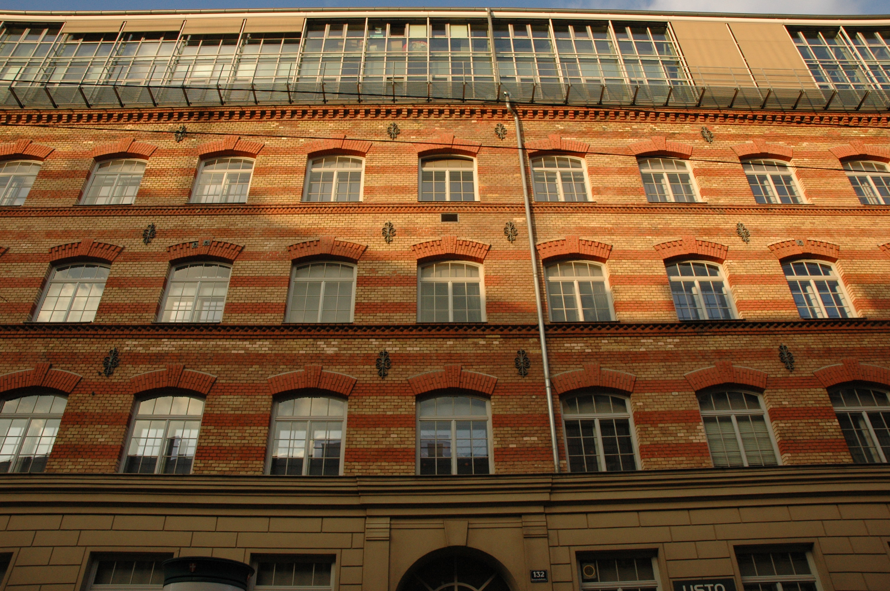 former "Listo Film" (* 1919; building dates from 1893; top floor got transoformed into 43 x 13 m big film studios in 1922), now "Listo Videofilm", post production company, headquarters and studios in Vienna-Mariahilf (6th District), Gumpendorferstraße 132